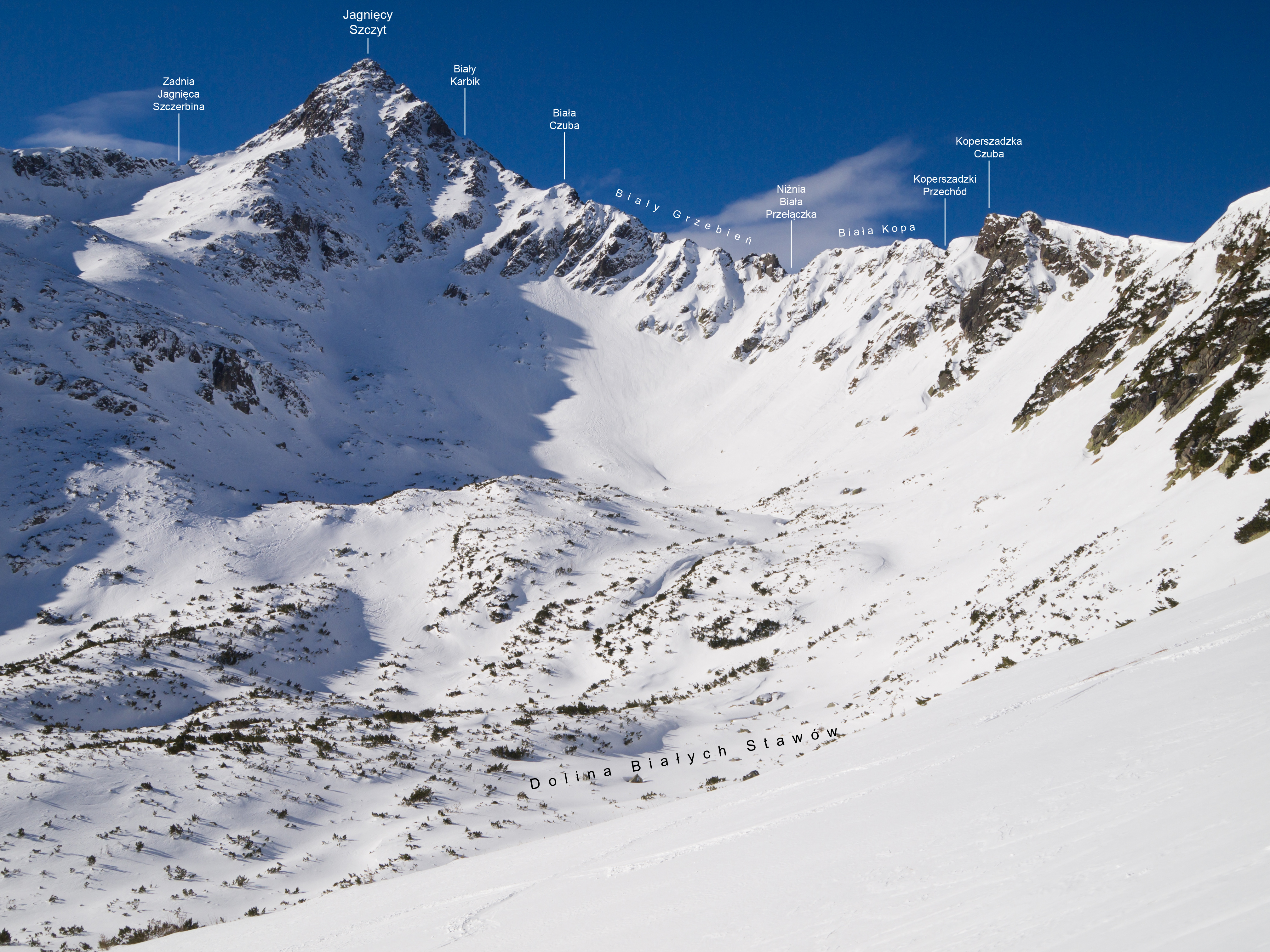 Jahňací štít and Meďodolský hrebeň – view from dolina Bielych plies (Polish captions).